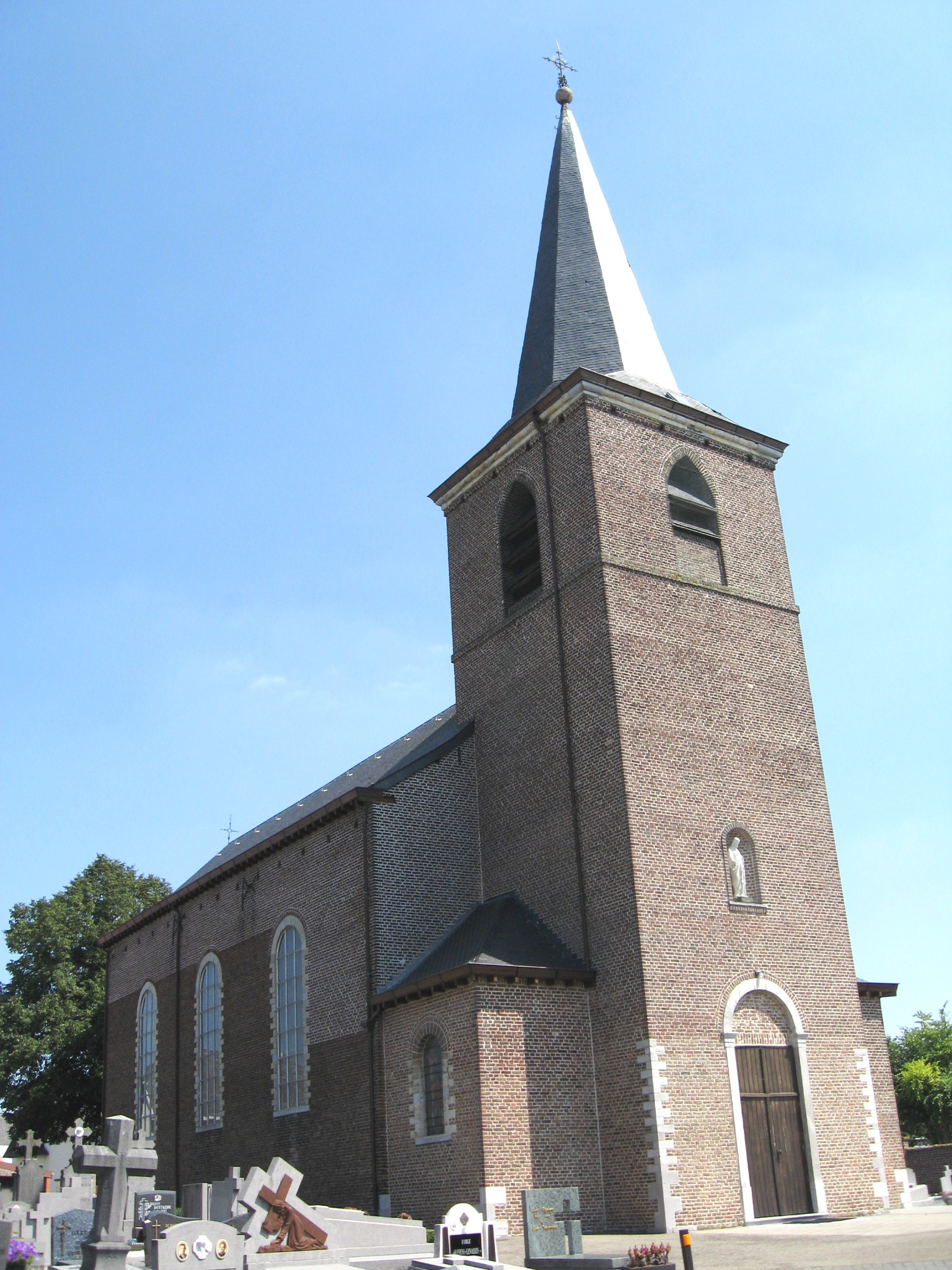 Church of Saint Pantaleon in Kerniel, Borgloon, Limburg, Belgium